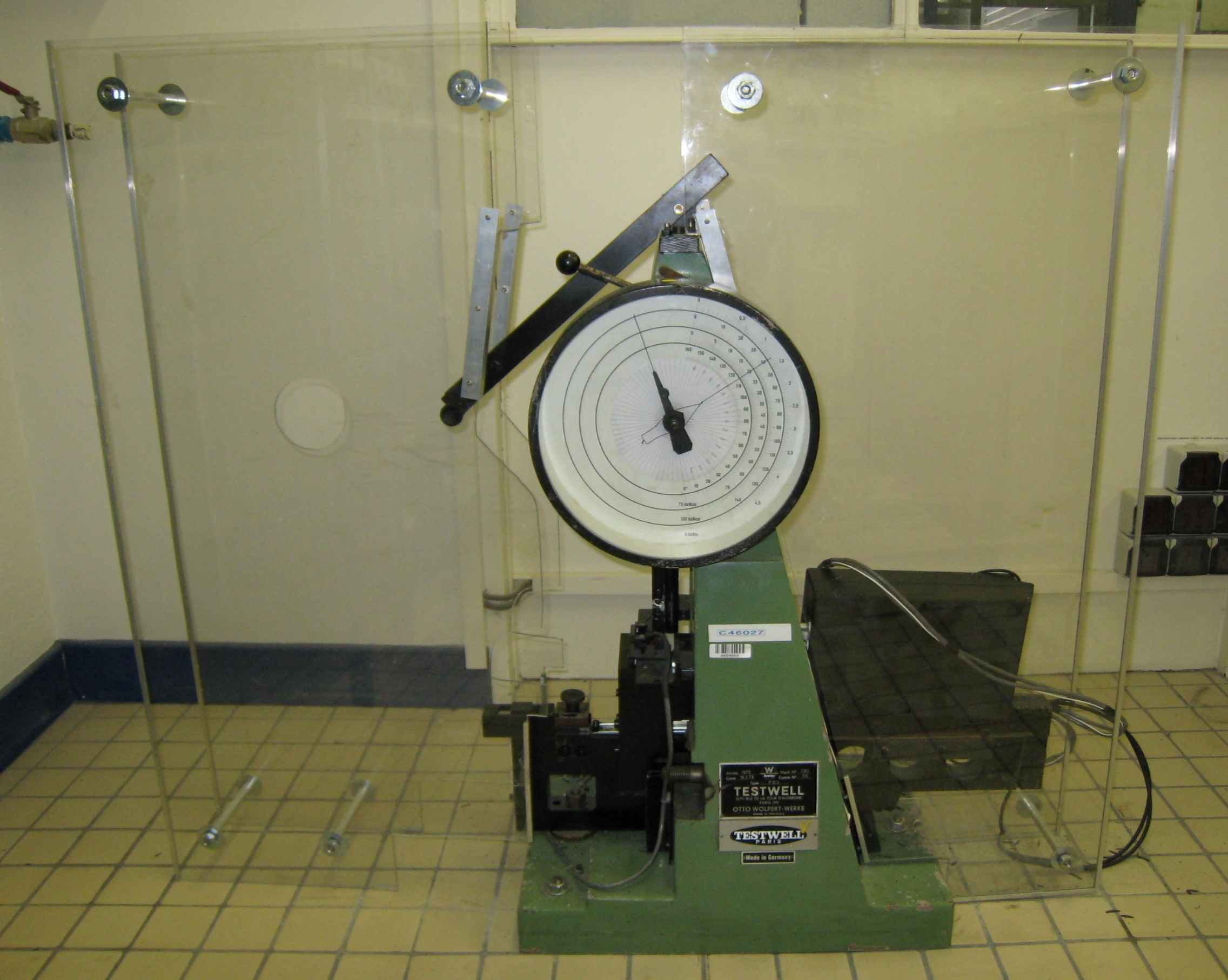 A Charpy impact test machine Testwell, analog version.